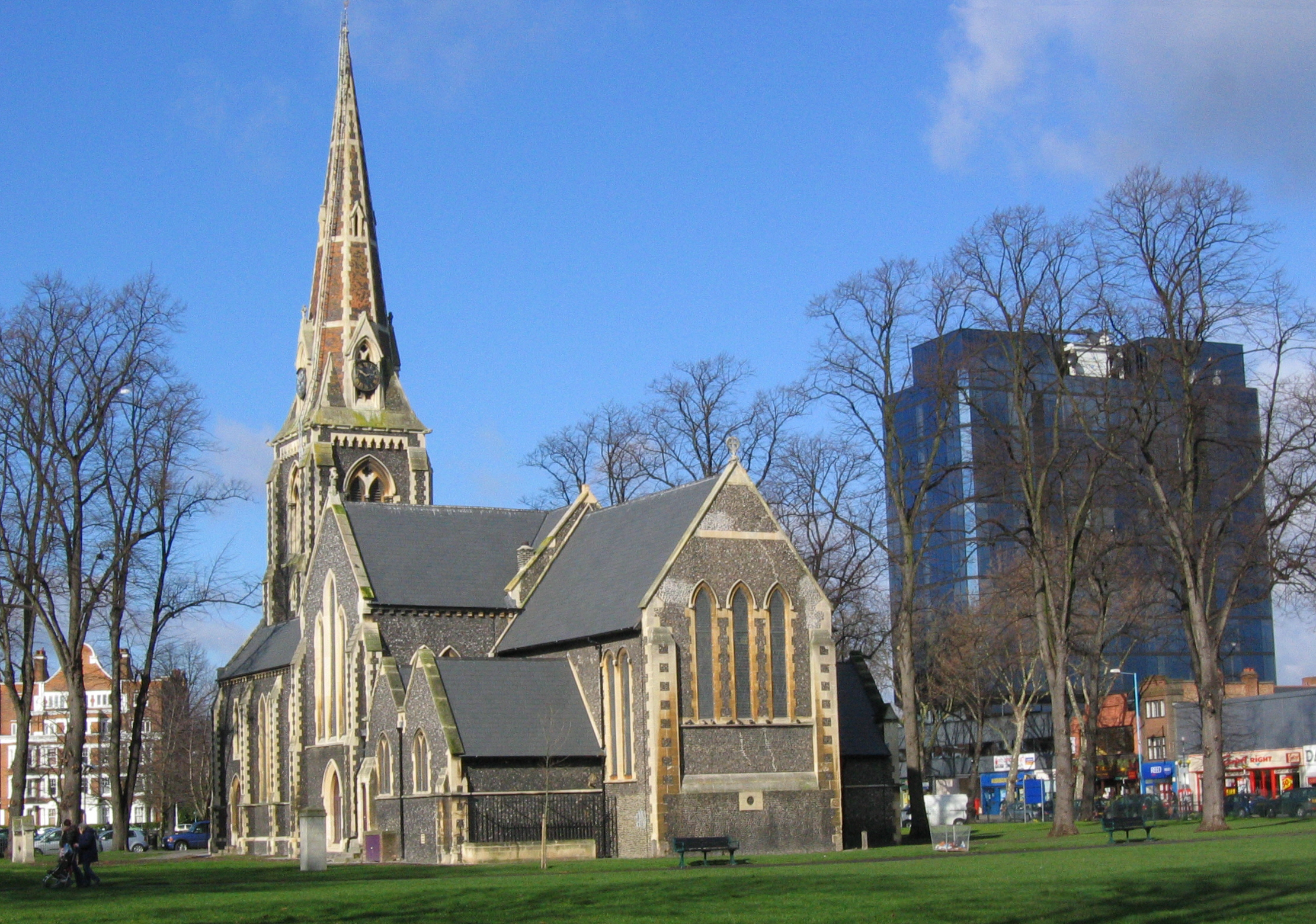 Christ Church, Turnham Green, London W4, seen from the southeast